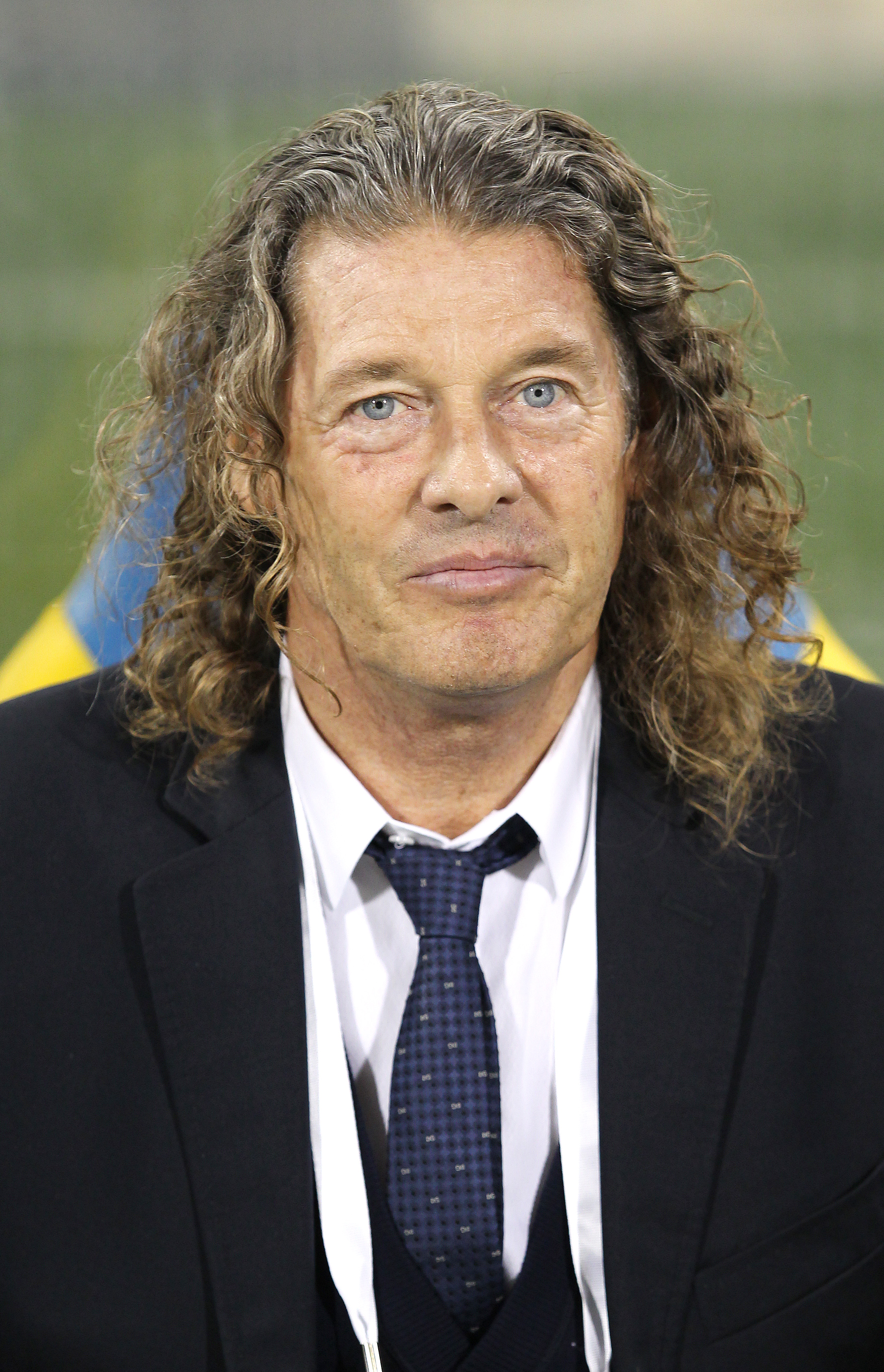 Al Gharafa coach Bruno Metsu prior to the start of a Qatar Stars League match.